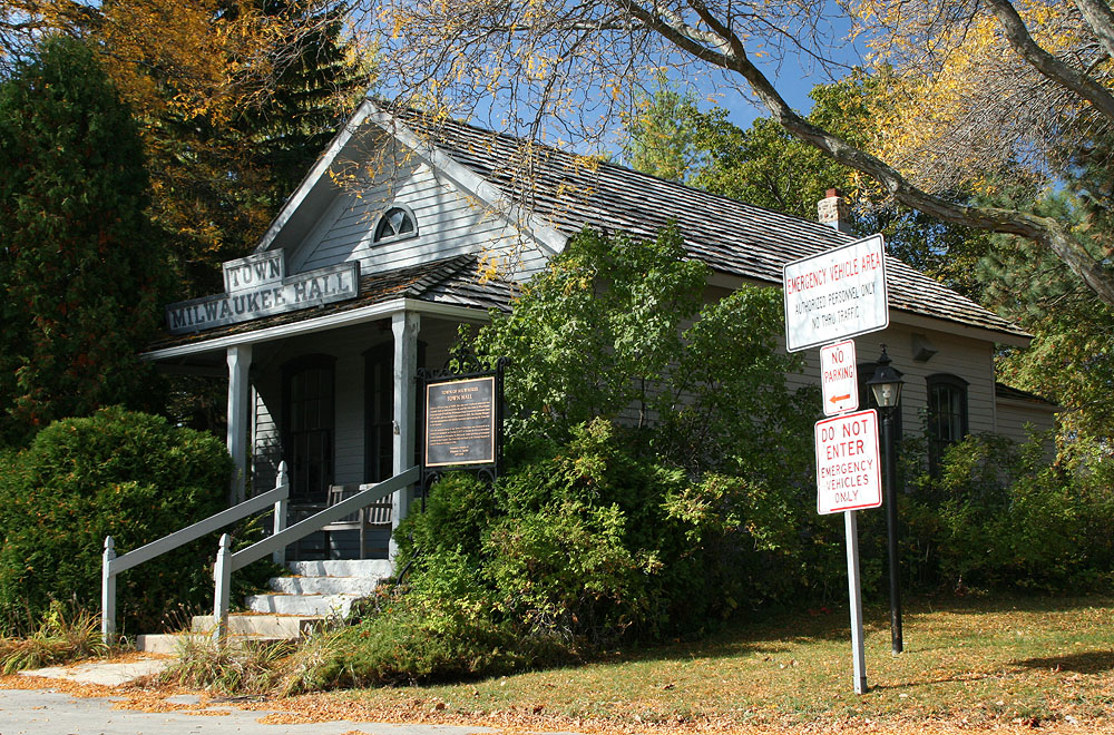 The Town of Milwaukee Town Hall, National Registered Historic Place in Glendale, Wisconsin.